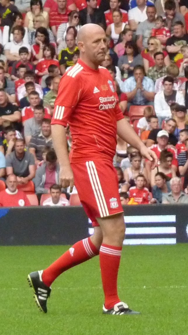 Scottish football player Gary McAllister during Jamie Carragher Testimonial Match